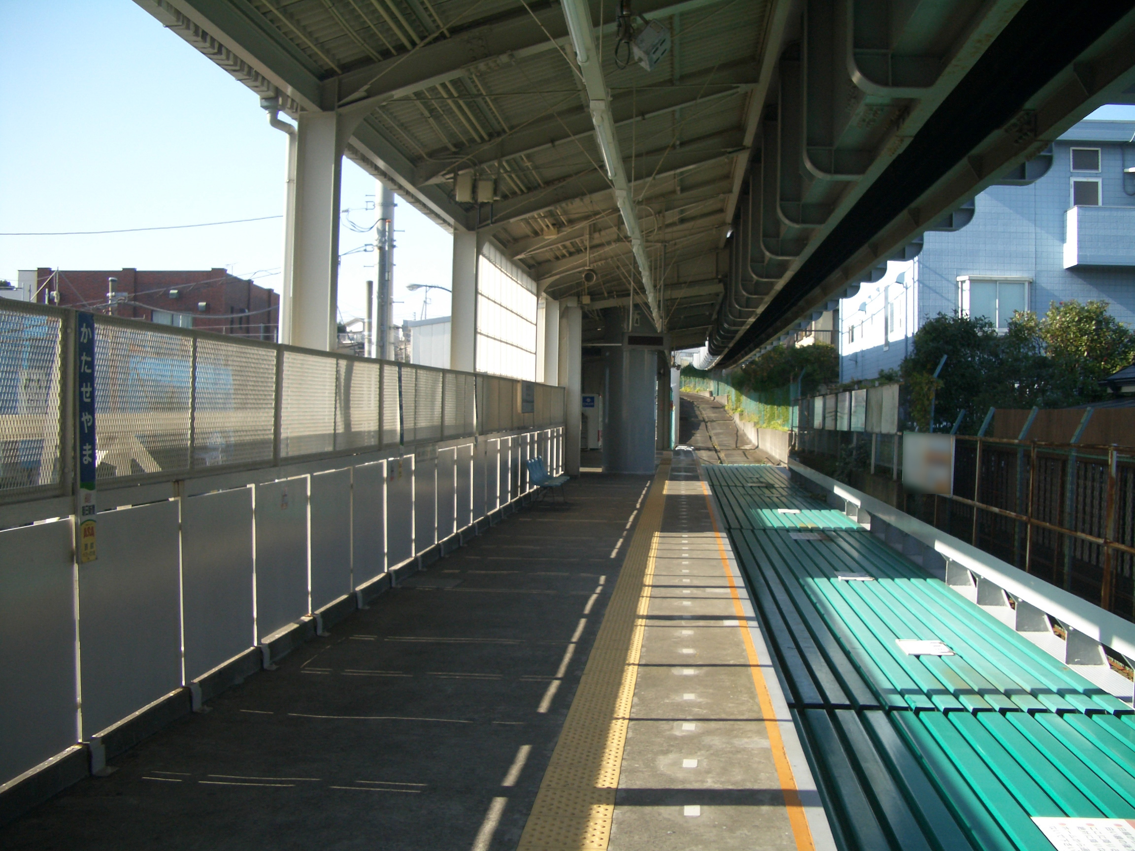 The platform at Kataseyama Station on the Shōnan Monorail Line in Kamakura city, Kanagawa prefecture, Japan